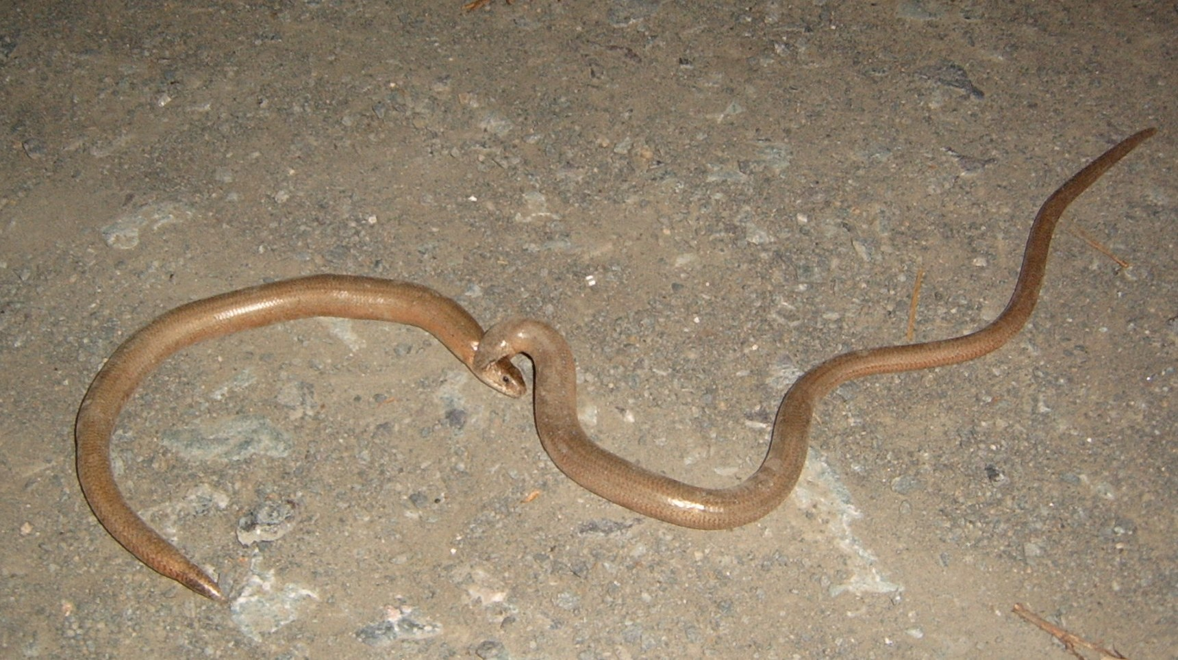 Male and female anguis fragilis while the copulation.